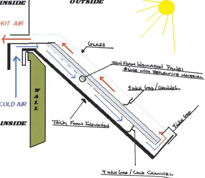 Passive air exchange